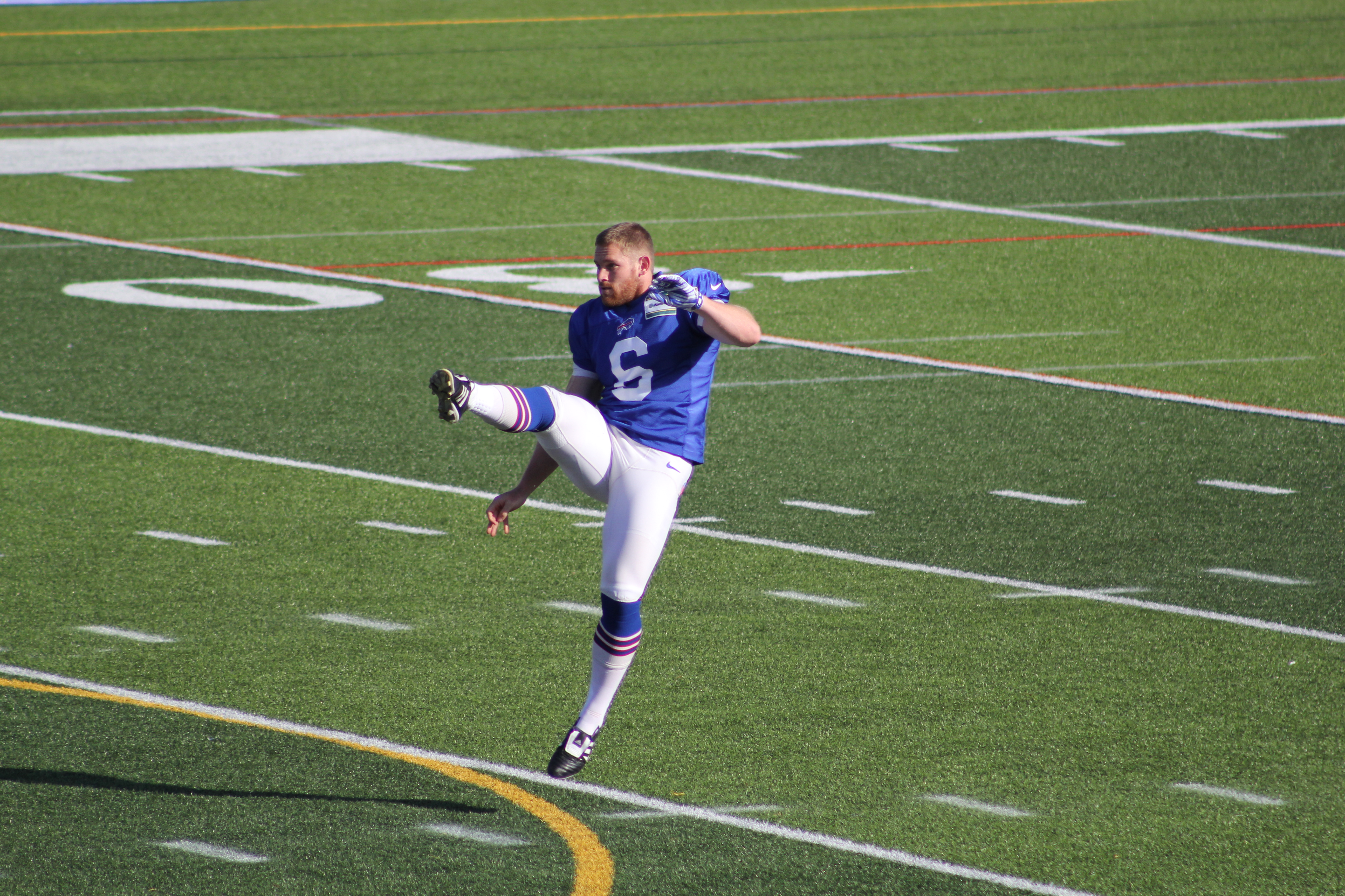 Camp 2015